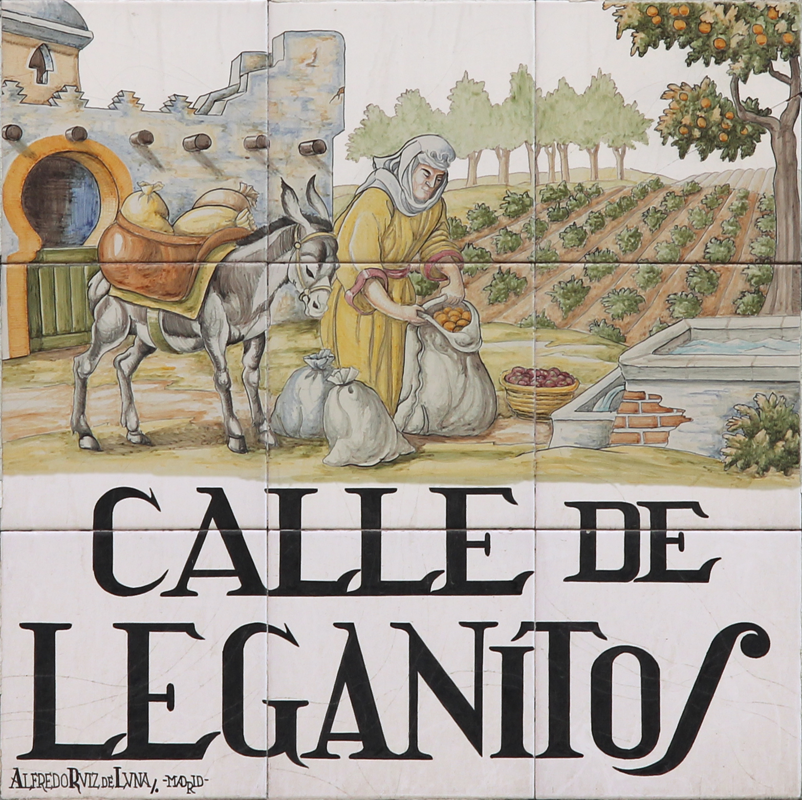 Sign of Calle de Leganitos (street) in Madrid (Spain).